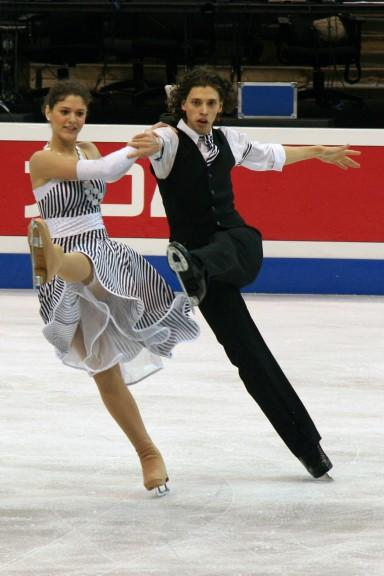 Emese Laszlo & Mate Fejes at the 2009 World Figure Skating Championships.